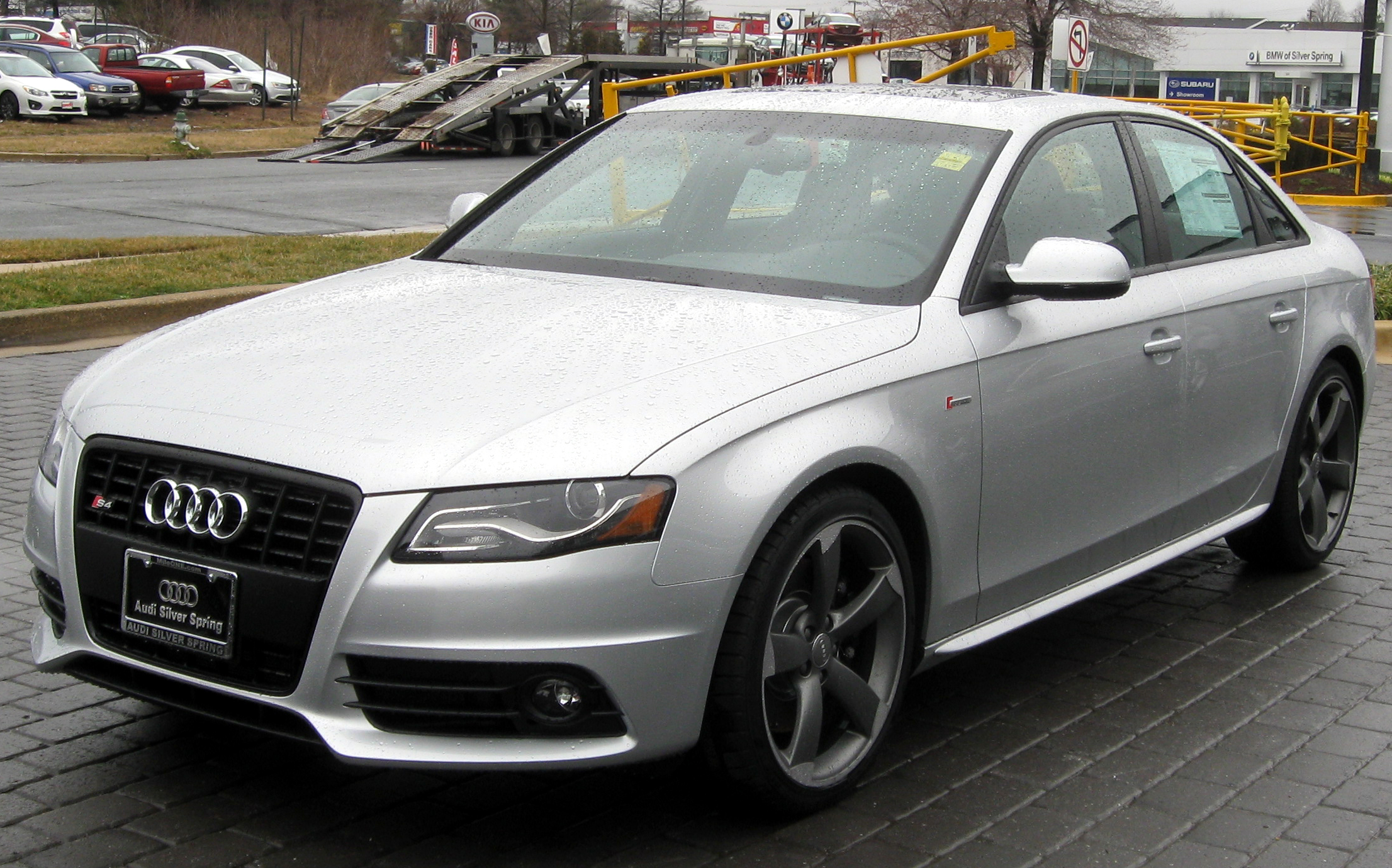 2012 Audi S4 photographed in Silver Spring, Maryland, USA.